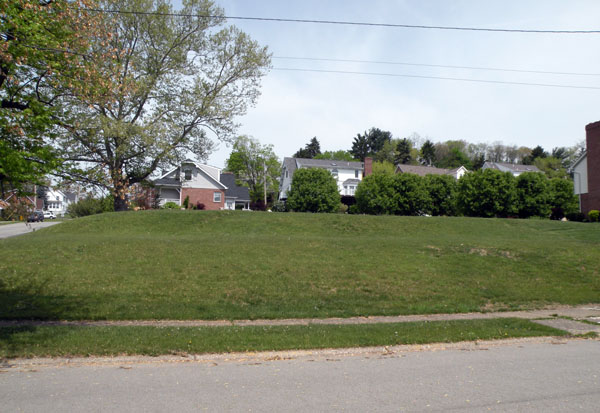 Picture of the former site of Hawthorne School in Canonsburg, Pennsylvania, on May 1, 2010. The school no longer exists, but was built in 1929 in Tudor Revival style by George Brugger and Carl W. Shrimp. The school was listed on the National Register of Historic Places in 1986.